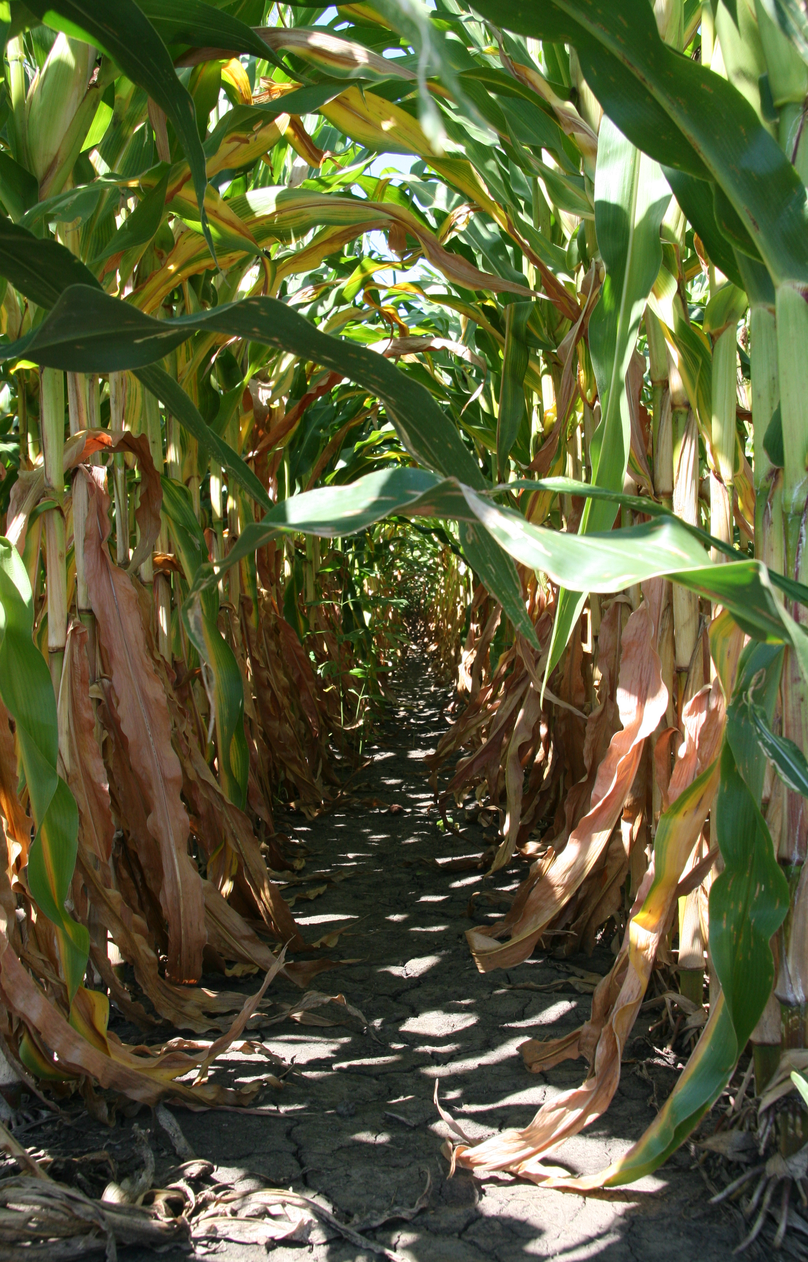 Looking along the narrow path formed between two rows of maize (Zea mays) in a field in Tippecanoe County, Indiana. The maize is normally sown in regular rows by a planter towed by a tractor.